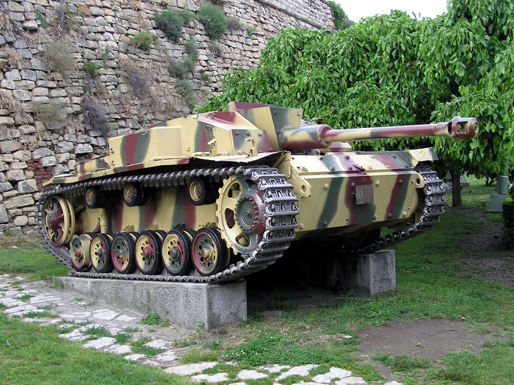 Sturmgeschütz III Ausf. F/8 (early) in Belgrade Military Museum, Serbia. Clearly visible are the bolted-on additional 30 mm armor plates on the front. Author of the picture is user Dungodung.